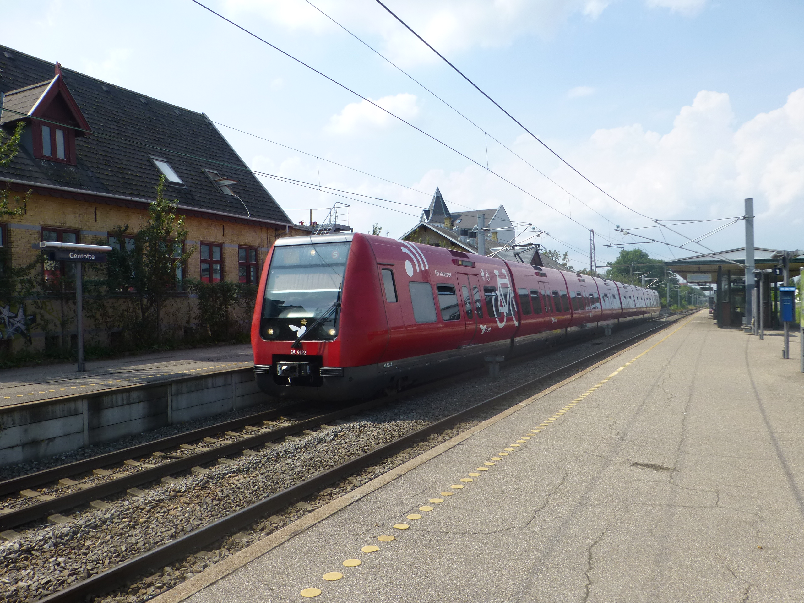 The temporary S-train line M at Gentofte Station in Copenhagen.